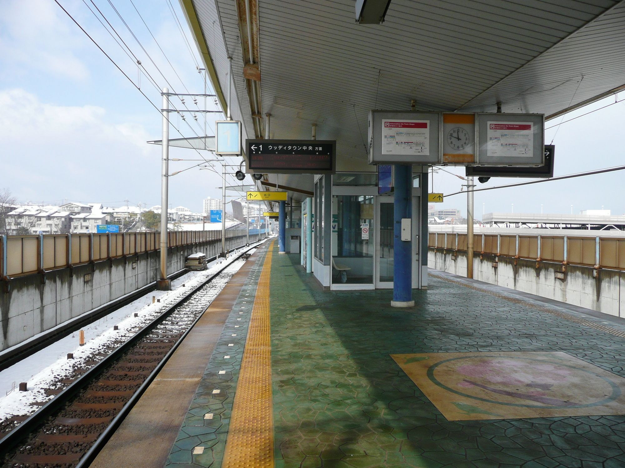 Kobe Electric Railway,Minami Woody Town Station platform. / 神戸電鉄公園都市線南ウッディタウン駅ホーム